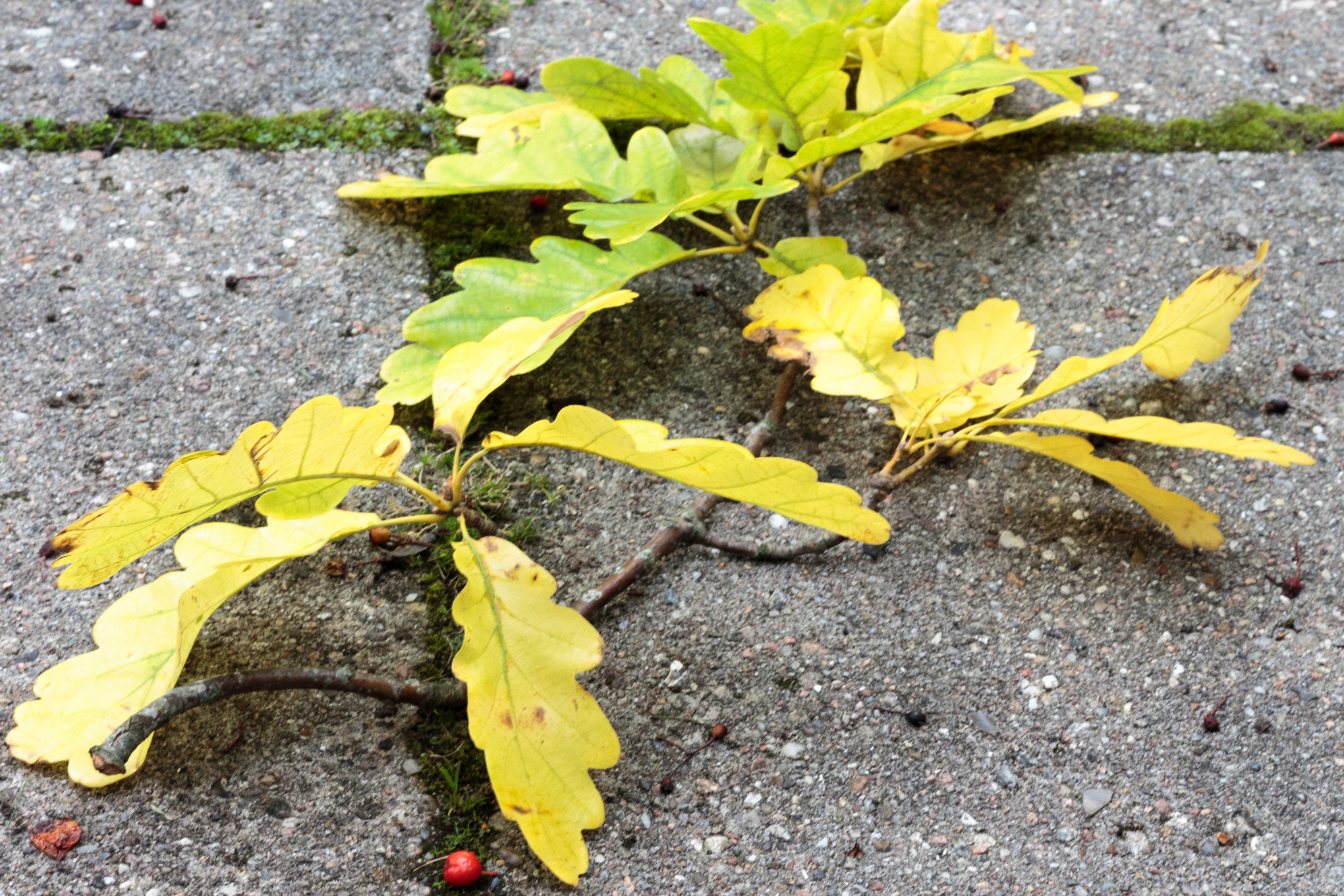 Abscission of a branch from common oak (Quercus robur). The abscission took place on September 18th, 2018, and it was problably a reaction to the long-lasting drought that hit Denmark during the summer of this year. Please note that the leaves have not been shed yet.